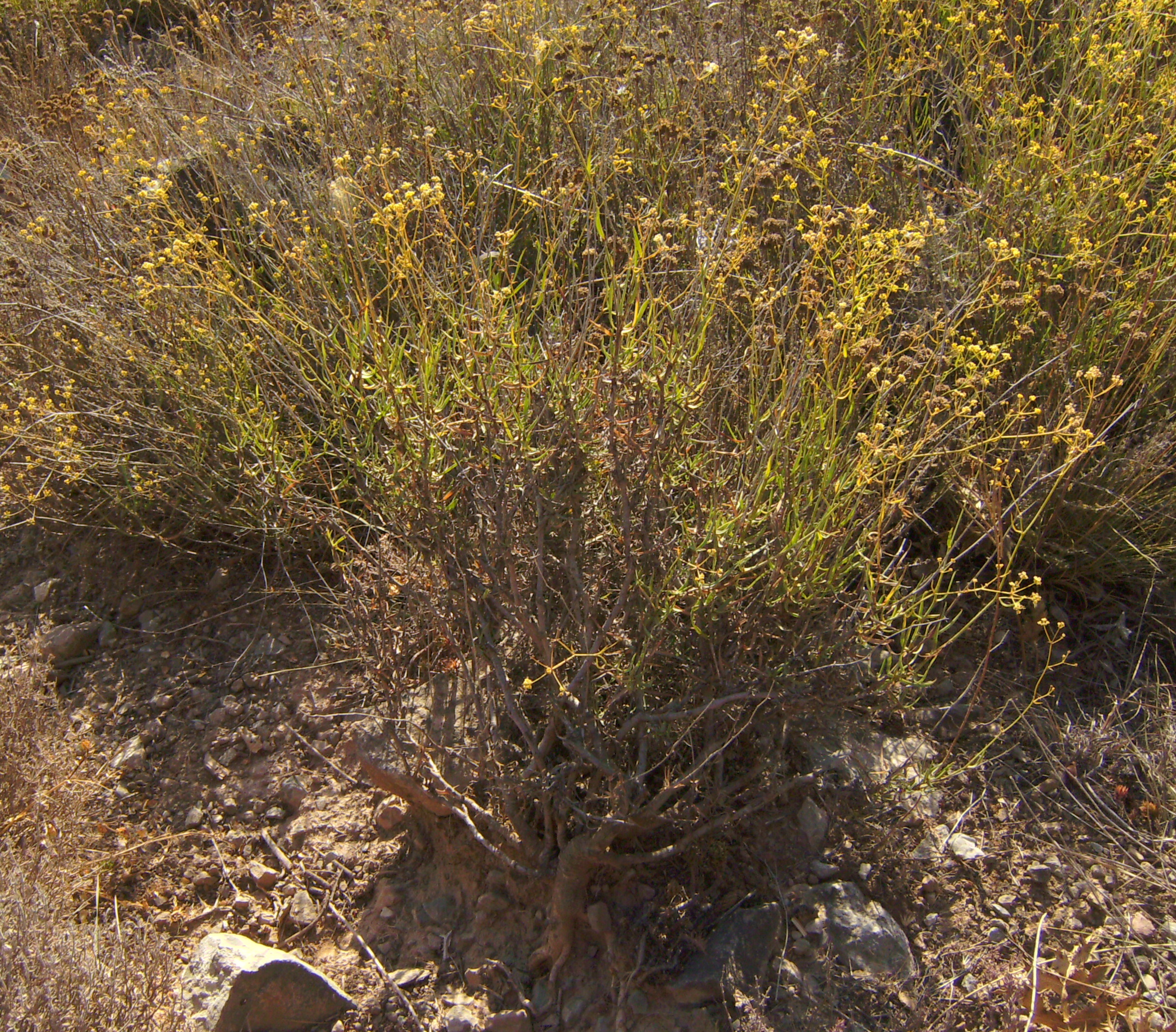 Bupleurum frutiscens showing the root, Castelltallt, Catalonia